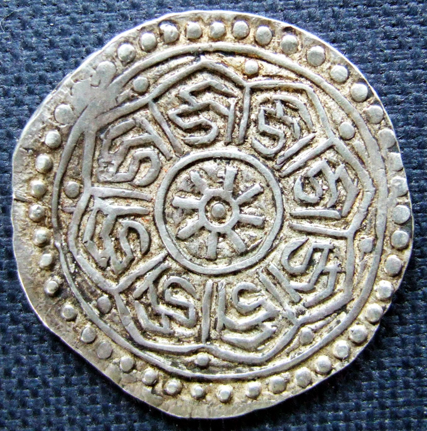 Tibetan early Tangka with eight syllables "dza" (18th century), reverse